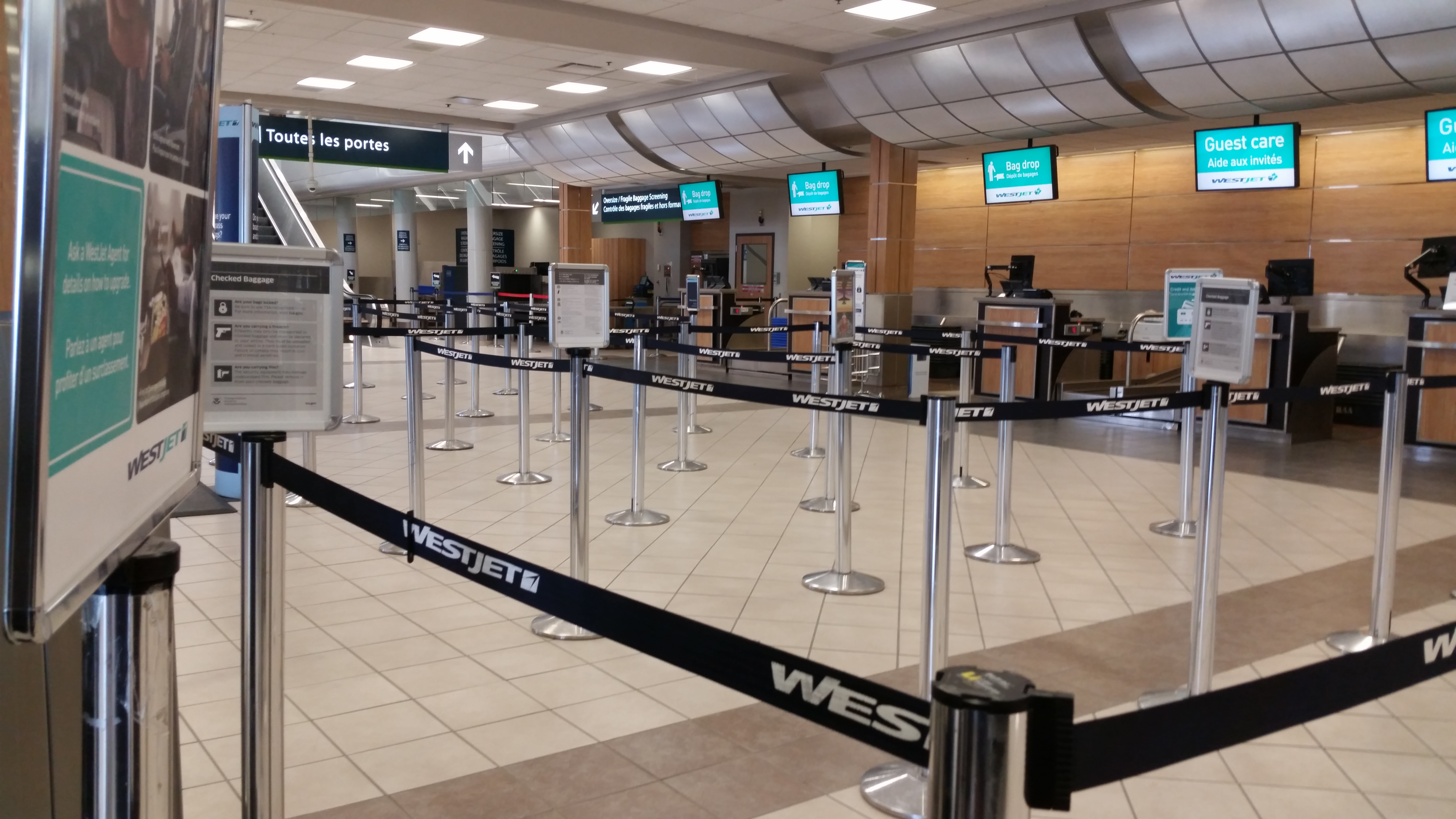 The WestJet checkin facilities at YQR, August 2018